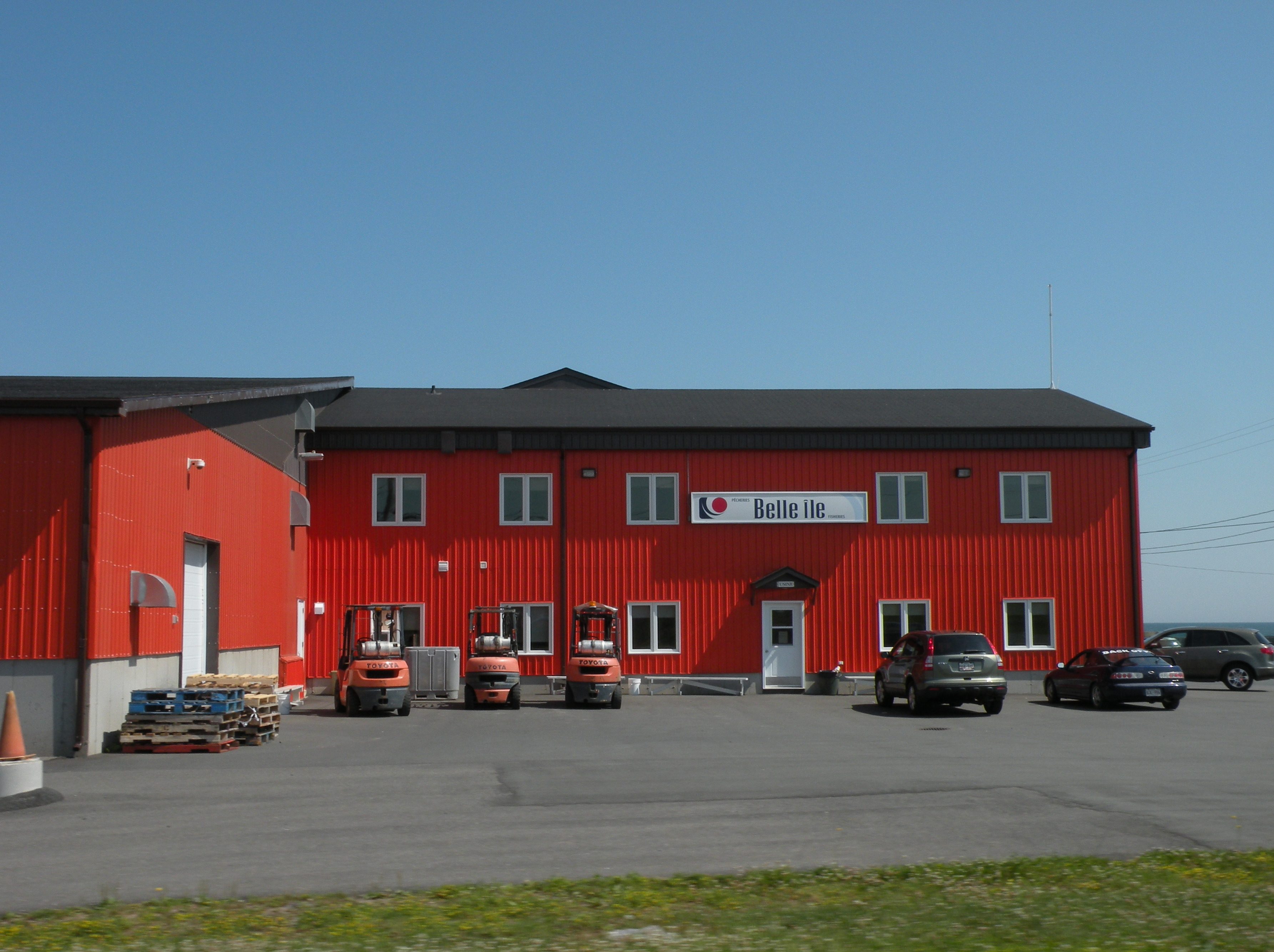 The Belle-île fish processing plant in Sainte-Marie–Saint-Raphaël, New Brunswick (Canada).